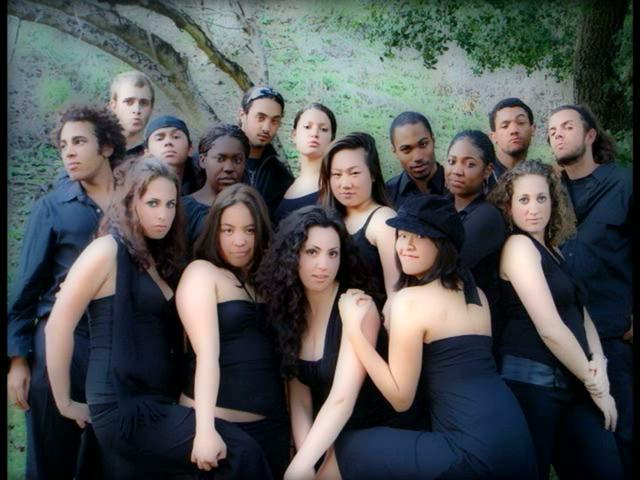 EP at Stanford in approximately 2005